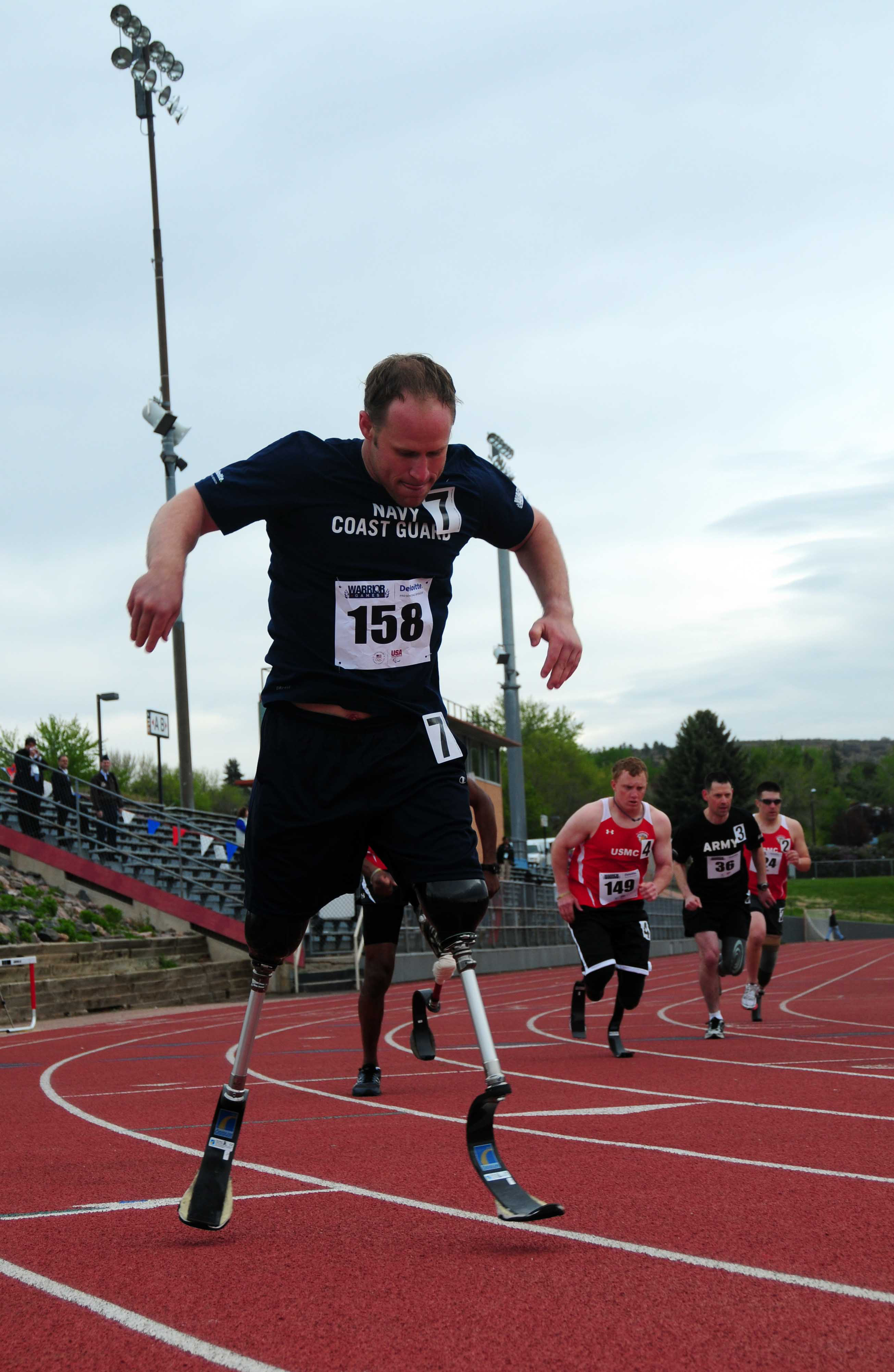 COLORADO SPRINGS, Colo. (May 17, 2011) Lt. Dan Cnossen (SEAL) competes in the Warrior Games 800 meter race at the Olympic Training Center. Warrior Games is a Paralympic-style sport event among 200 seriously wounded, ill, and injured service members from the Army, Navy, Air Force, Marine Corps, and Coast Guard. (U.S. Navy photo by Mass Communication Specialist 2nd Class Sarah E. Bitter/Released)